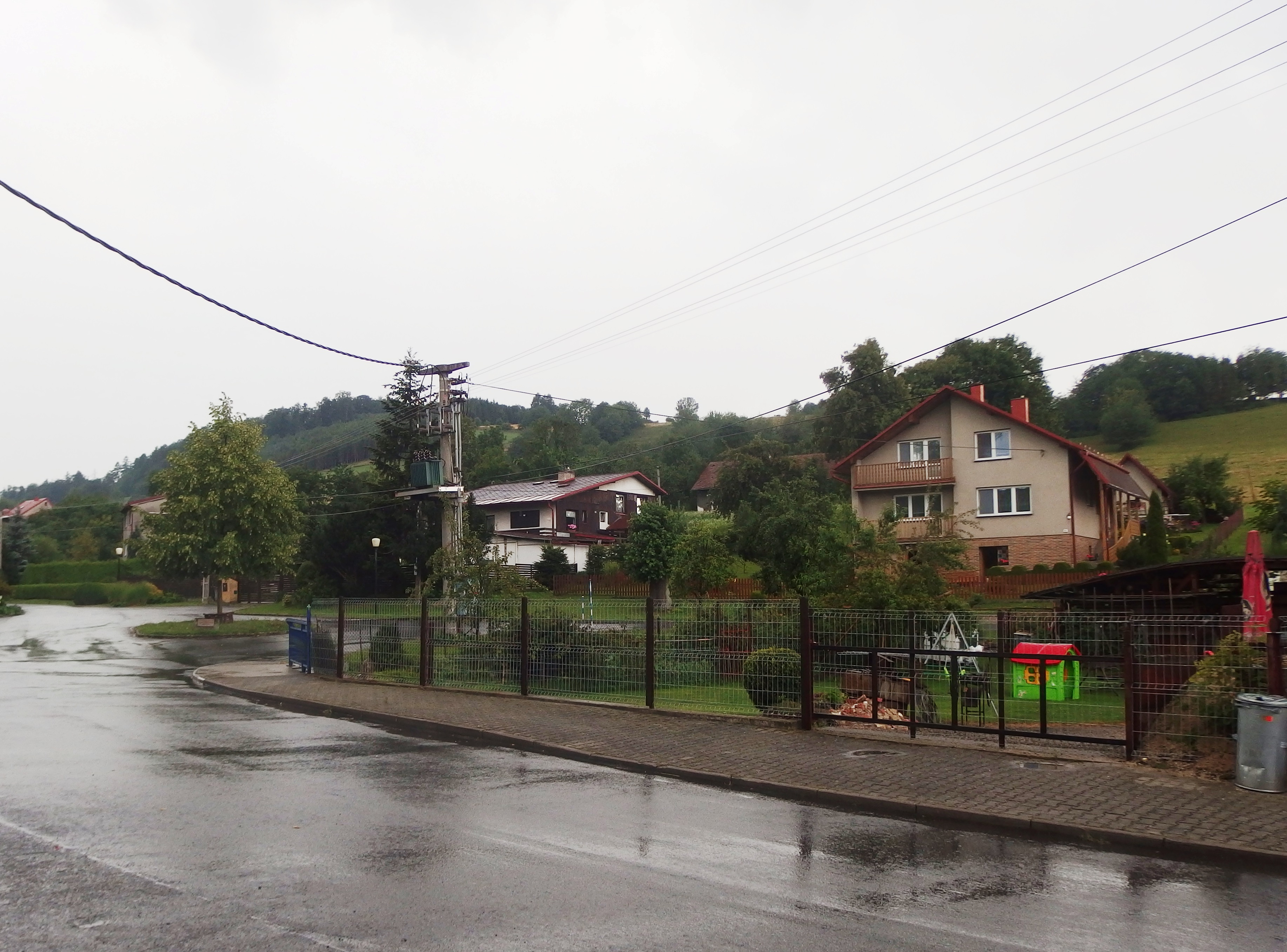 Hukvaldy, Frýdek Místek District, Czech Republic, part Horní Sklenov.